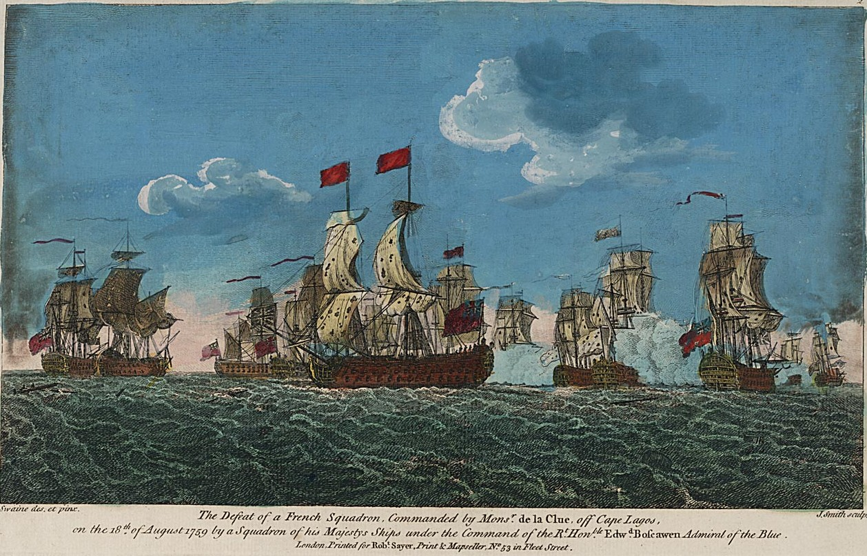 Battle of Lagos in 1759 off Portugal. Defeat of the French squadron of La Clue in front of the English squadron of lord Boscawen.